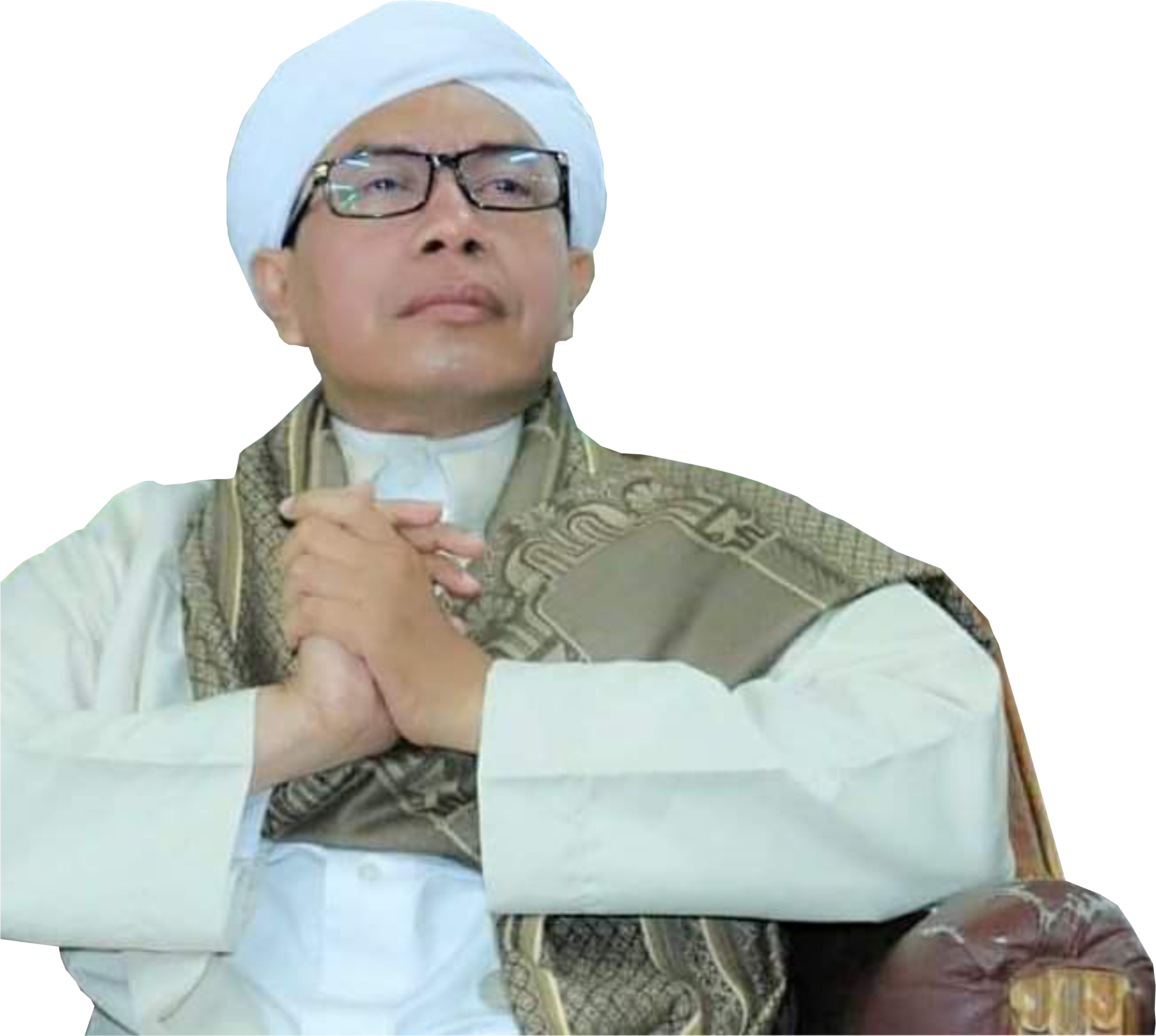 Ulama, Hasil foto sendiri